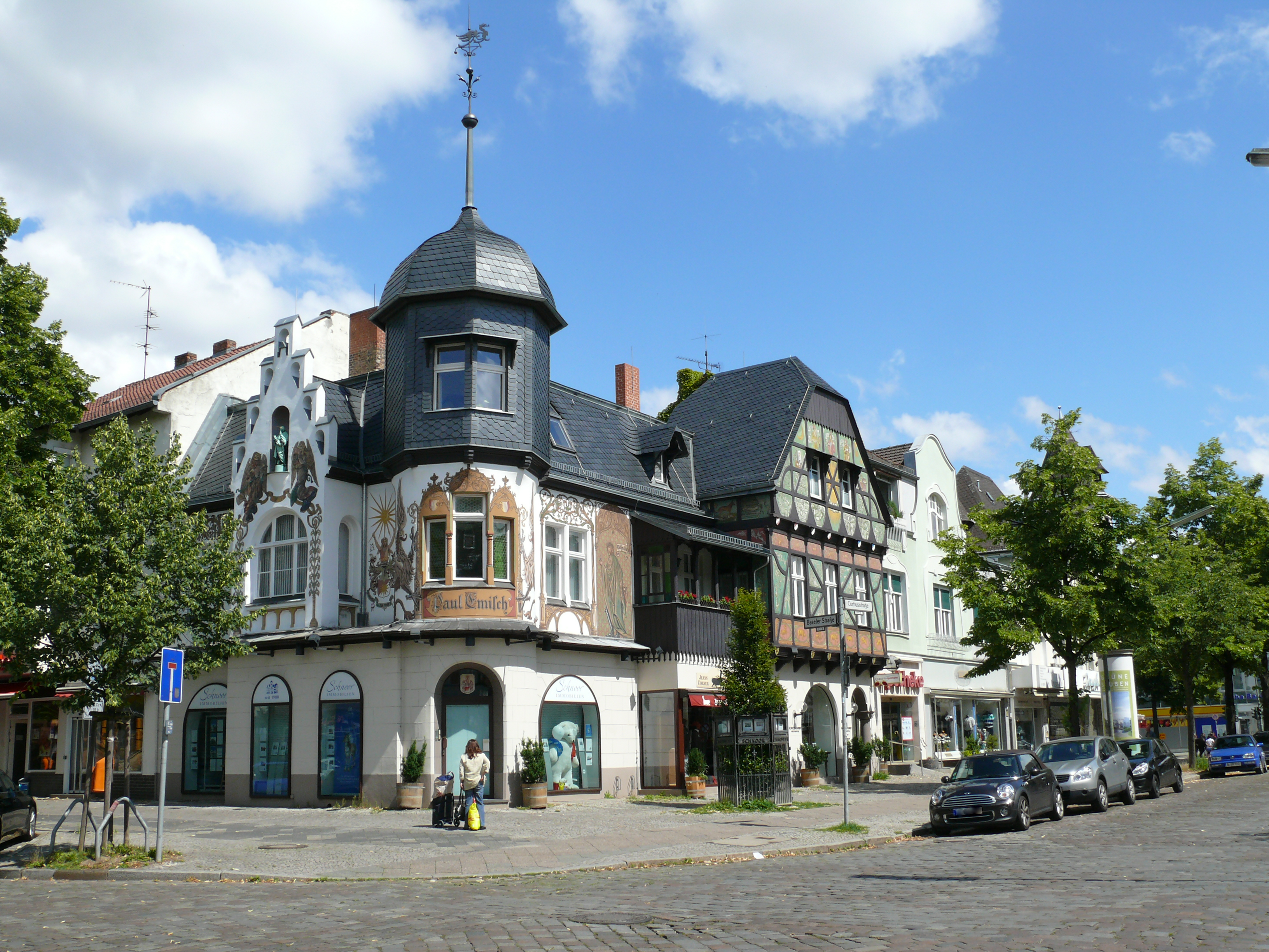 Berlin-Lichterfelde Curtiusstraße 6 Emisch-Haus